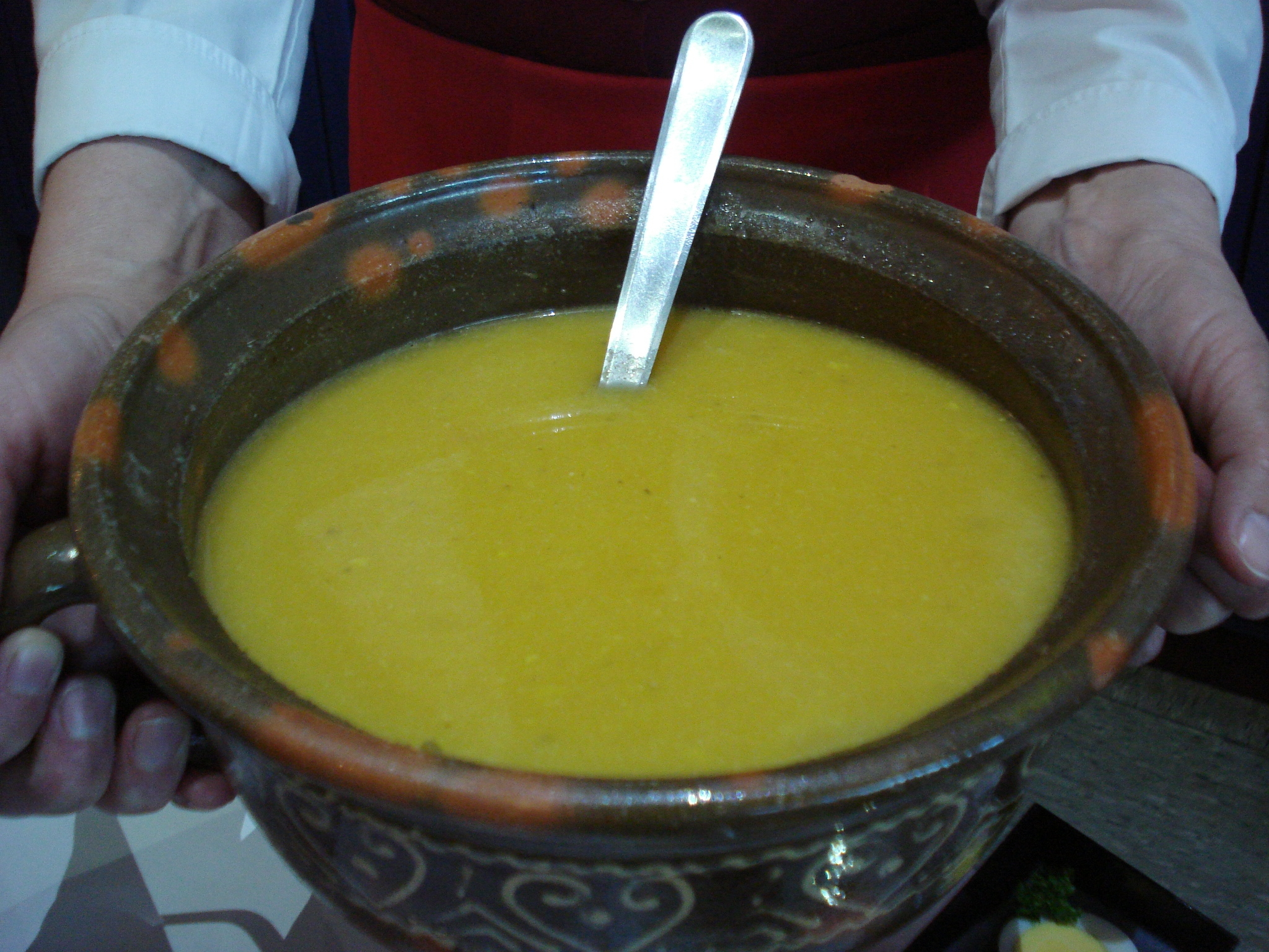 Traditional "pretep" thick cream soup (with pumpkin added) from Medjimurje County, northern Croatia